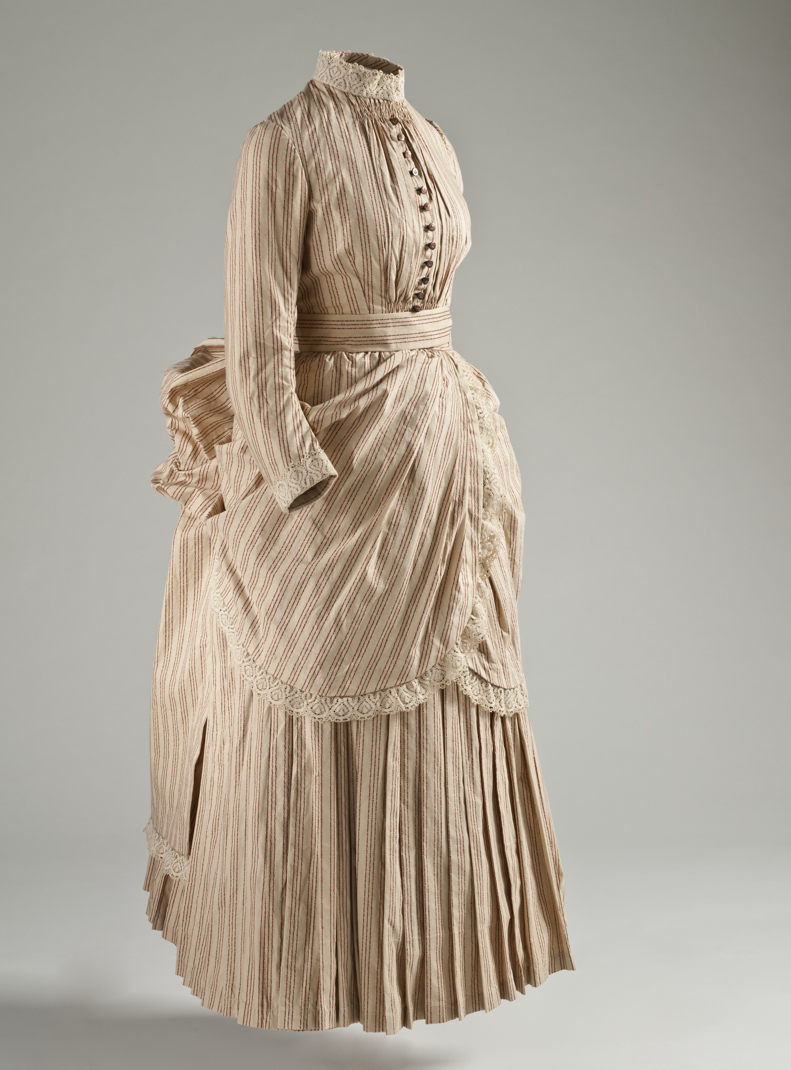 England, circa 1885 Costumes; principal attire (entire body) Cotton plain weave, printed, with cotton-lace trim Center back length A: 50 1/2 in. (128.27 cm); Center back length B: 28 1/2 in. (72.39 cm) Purchased with funds provided by Suzanne A. Saperstein and Michael and Ellen Michelson, with additional funding from the Costume Council, the Edgerton Foundation, Gail and Gerald Oppenheimer, Maureen H. Shapiro, Grace Tsao, and Lenore and Richard Wayne (M.2007.211.782a-b) Costume and Textiles